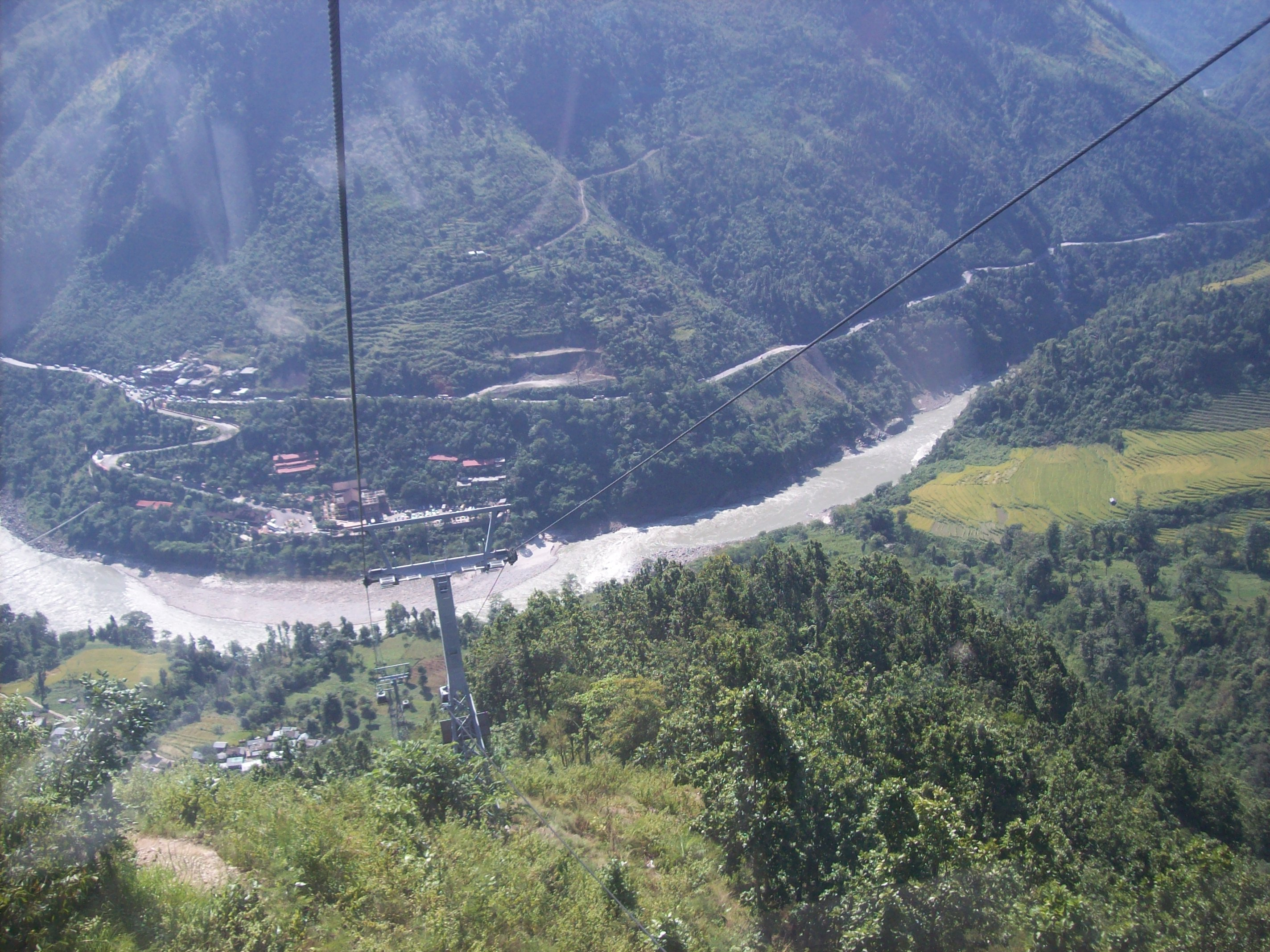 An aerial view of a lonely place in Nepal